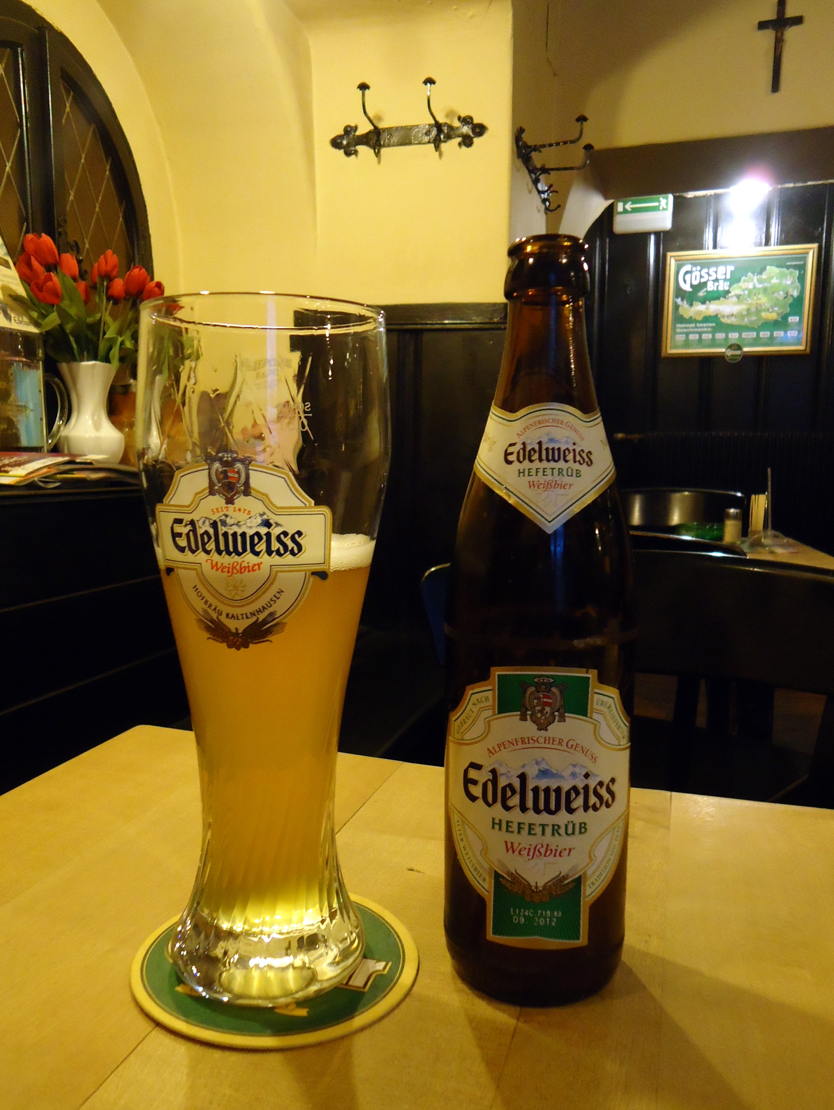 Edelweiss beer